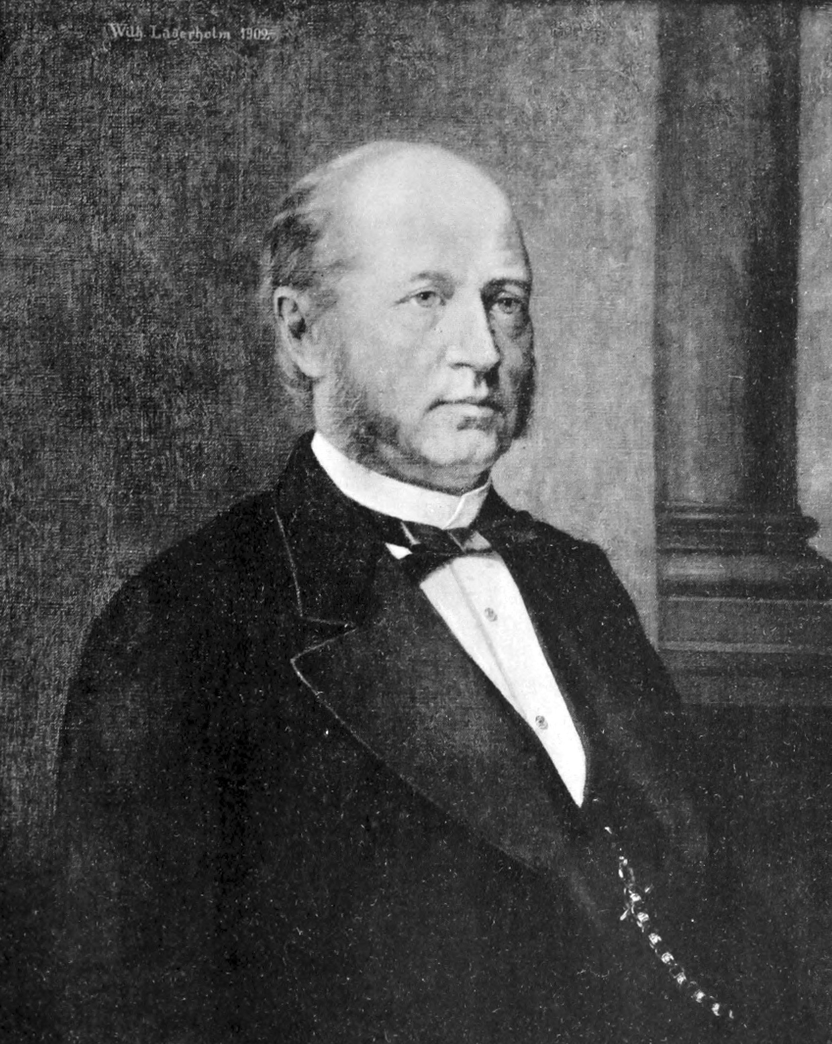 Nils Gustaf Kjellberg (1827-1893), Swedish psychiatrist